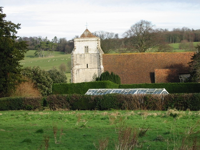 Bishopsbourne church from the SW.